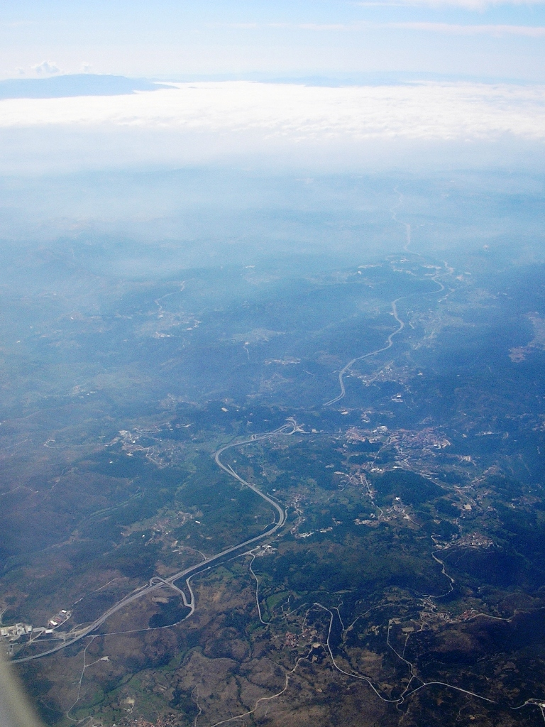 A24 motorway near Castro Daire, Portugal.